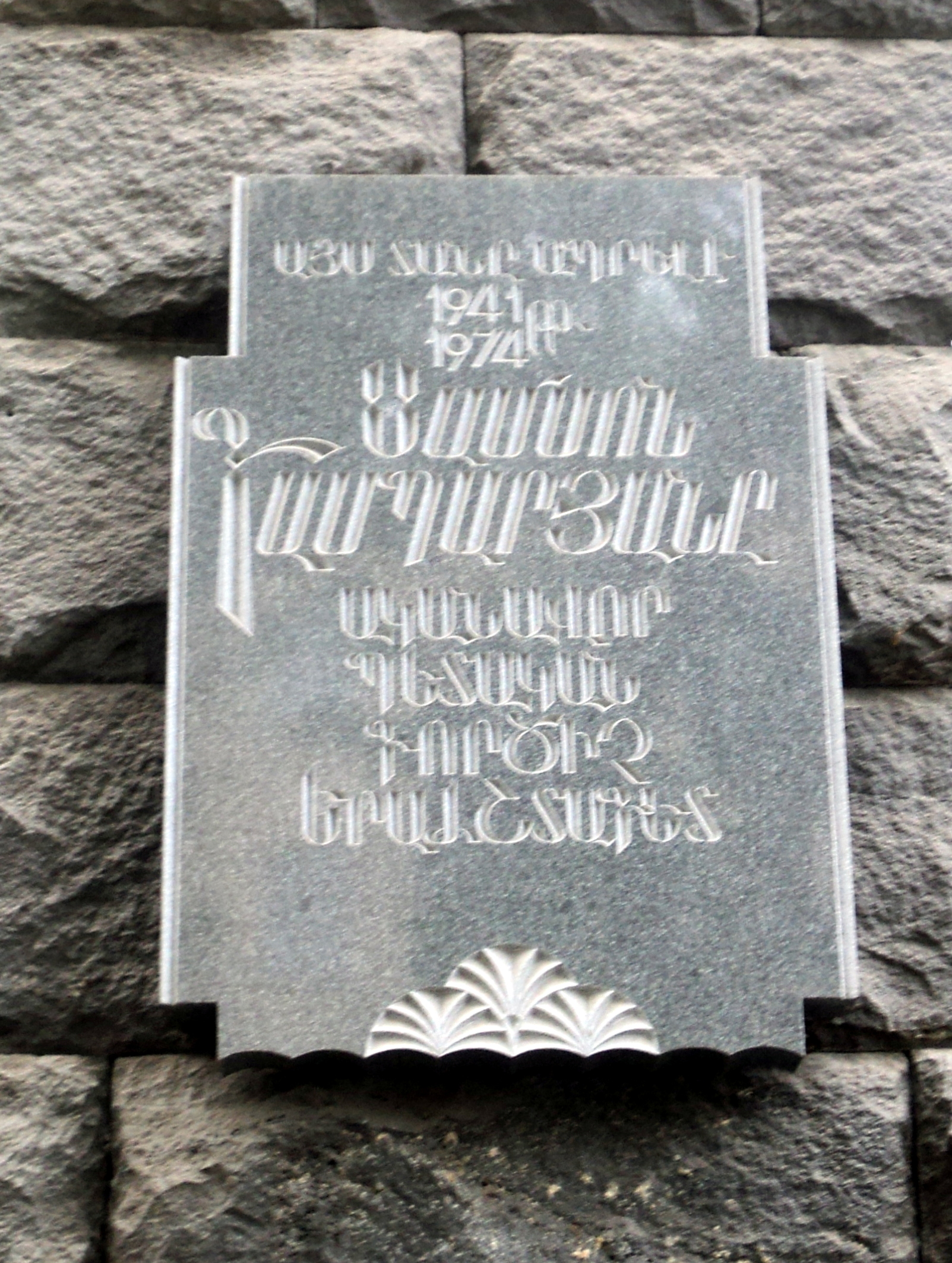 Samson Gasparyan's plaque